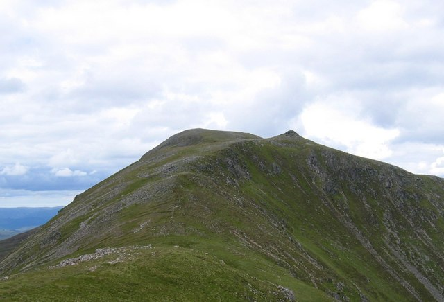 Beinn Bheoil. Beinn Bheoil's southern ridge.